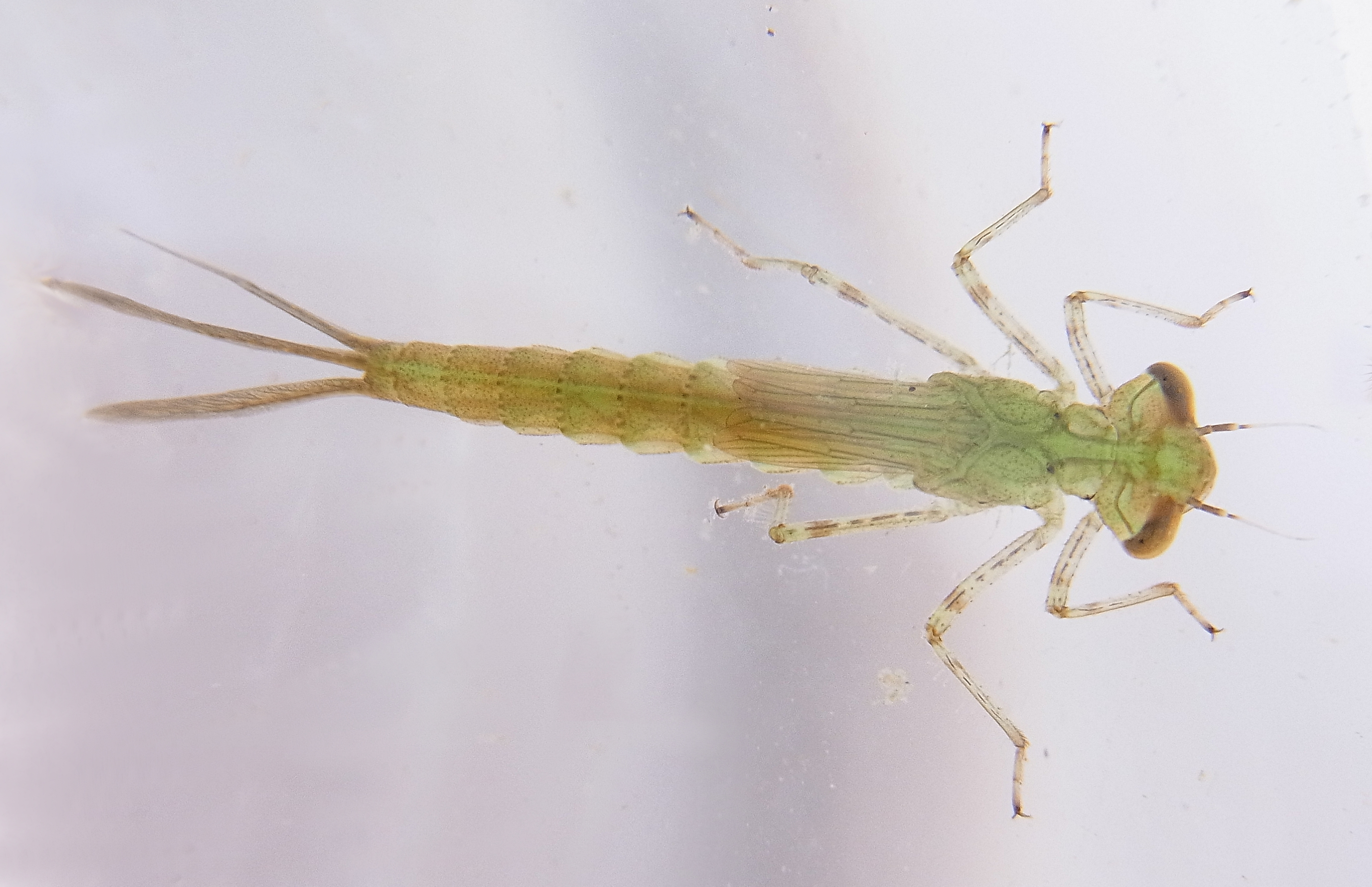 Larva of Coenagrion puella